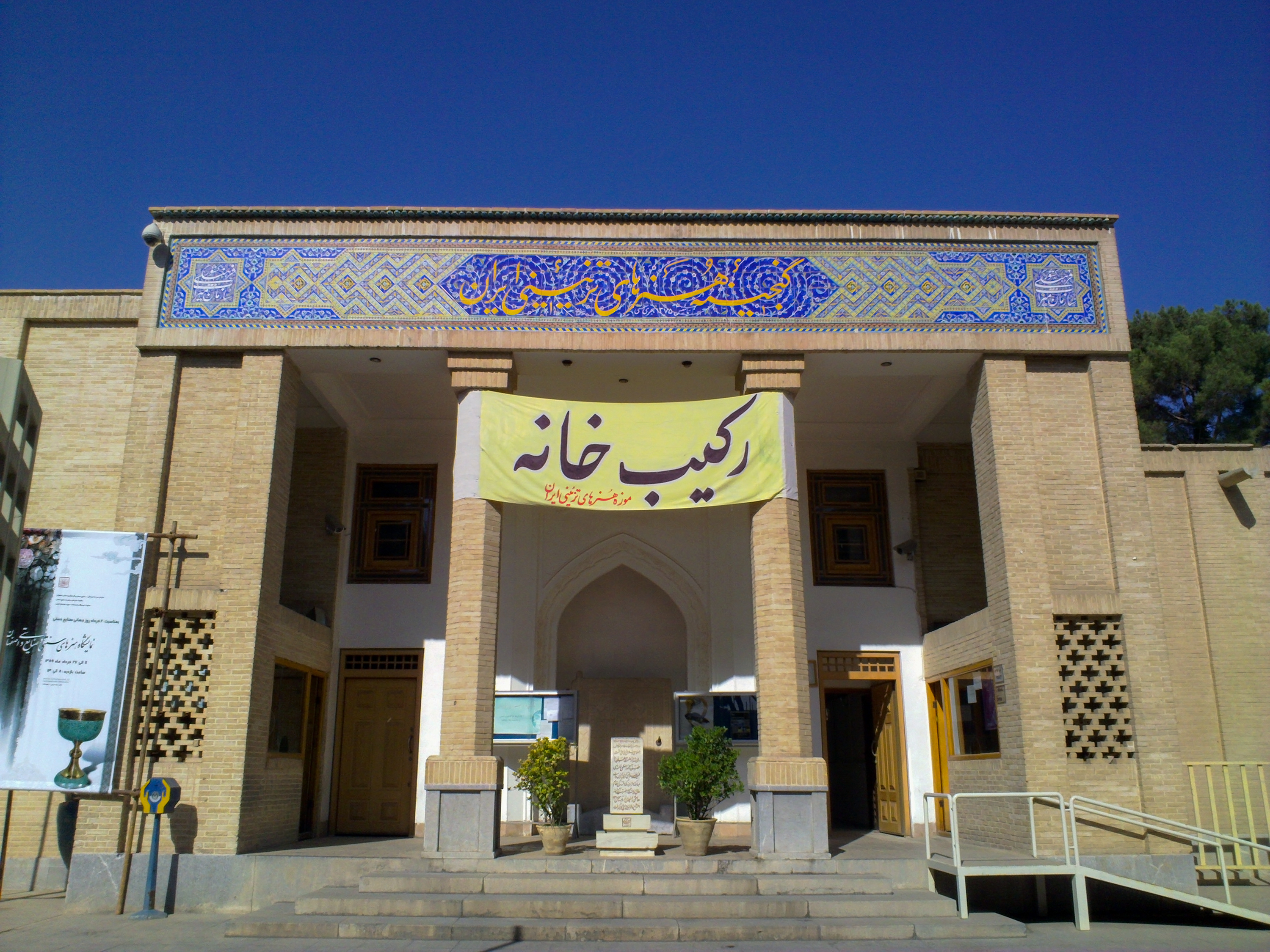 Isfahan historically also rendered in English as Ispahan, Sepahan, Esfahan or Hispahan, is the capital of Isfahan Province in Iran, located about 340 kilometres (211 miles) south of Tehran.